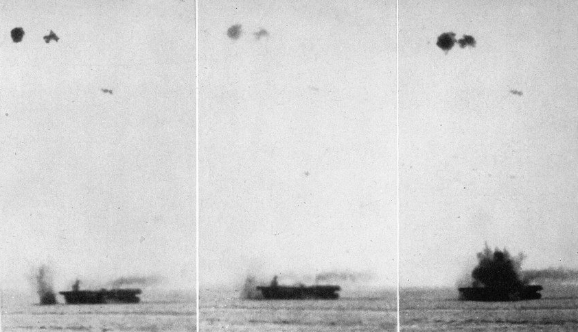 The U.S. Navy escort carrier USS Marcus Island (CVE-77) under attack by kamikaze suicide planes, probably off Leyte, in October 1944: A first plane crashes off the bow, then a second plane is barely visible over the carrier, before it crashes close aboard.